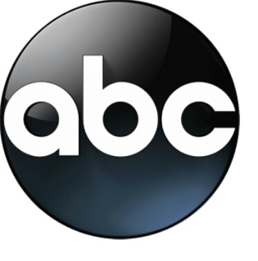 American Broadcasting Company